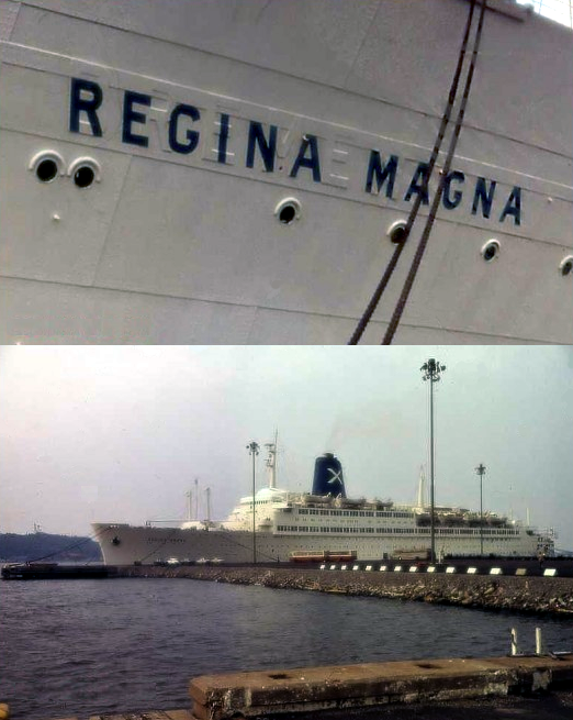 The Greek passenger ship Regina Magna in the port of Gothenburg (Sweden) - 1972